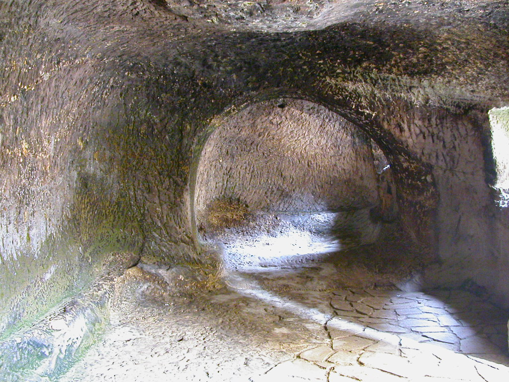 Interior de la ermita rupestre de Campo de Ebro - Valderredible